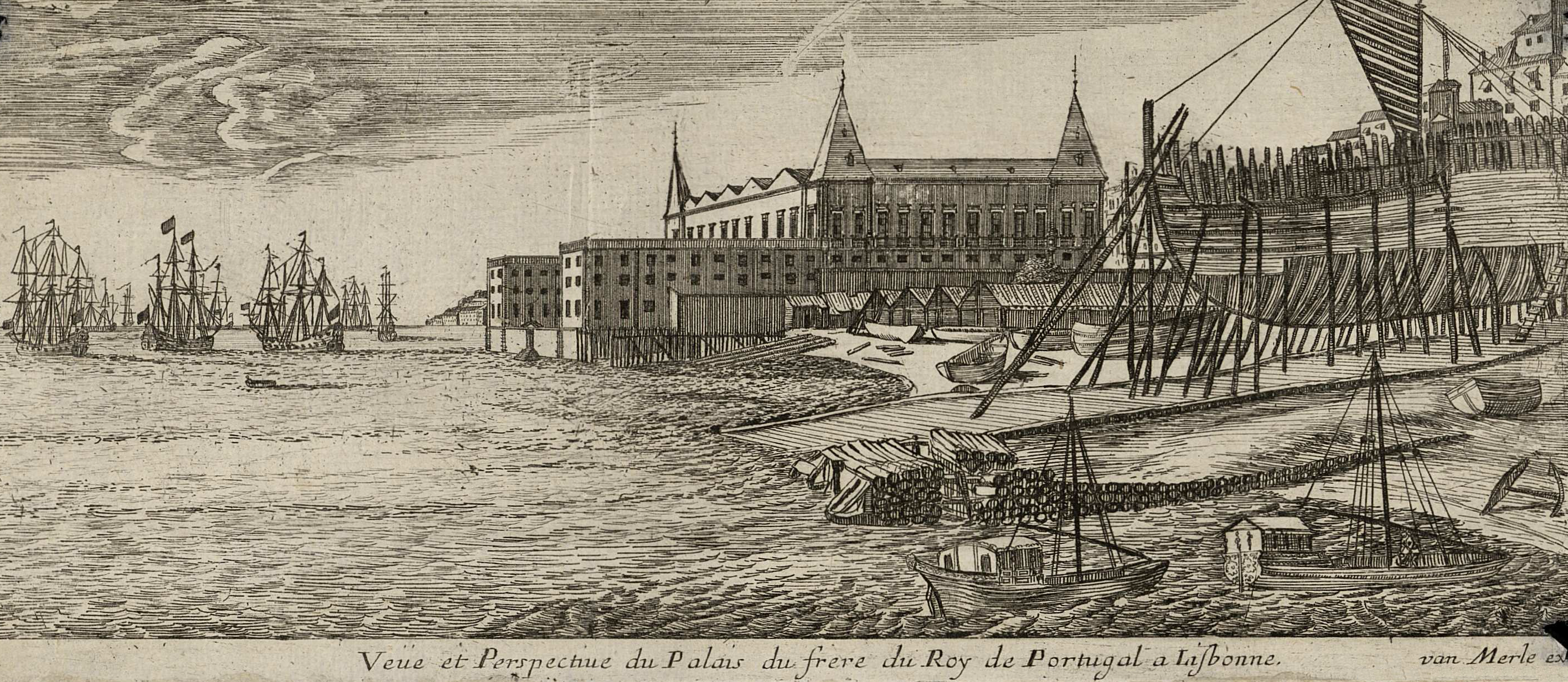 Palace of Prince Regent Peter (later King Peter II of Portugal), brother of King Afonso VI.